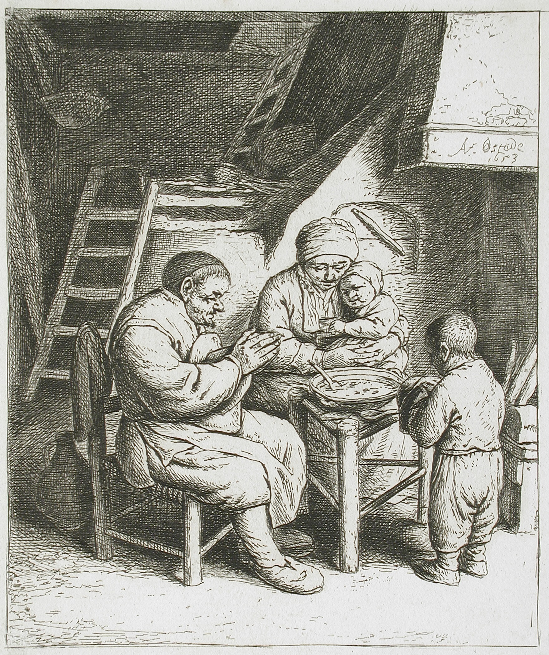 Holland, 1653 Prints; etchings Etching Gift of Mrs. Mary B. Regan (31.21.112) Prints and Drawings